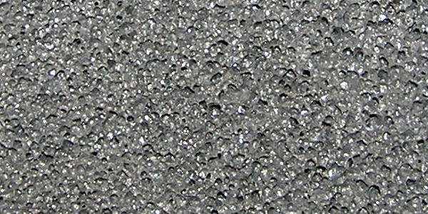 Surface of foamglss block. Produced by building materials plant Surface of block of foamglass production of the Zaporizhzhya (Ukraine) factory of build heat-insulation materials